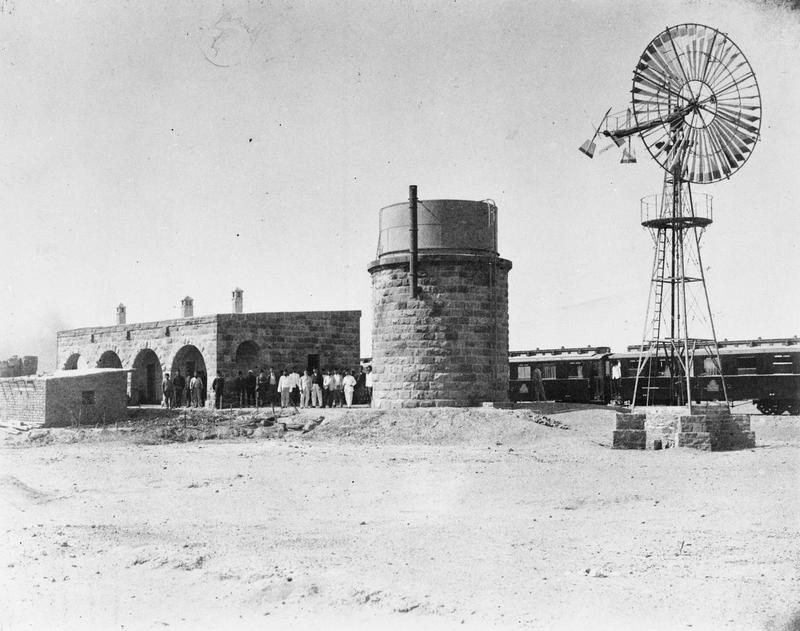 T E Lawrence and the Arab Revolt 1916 - 1918 Hejaz Railway - Zat ul Hajj station, 608 km from Damascus, 691 m above sea level. The water along the line is almost always raised by a windmill.